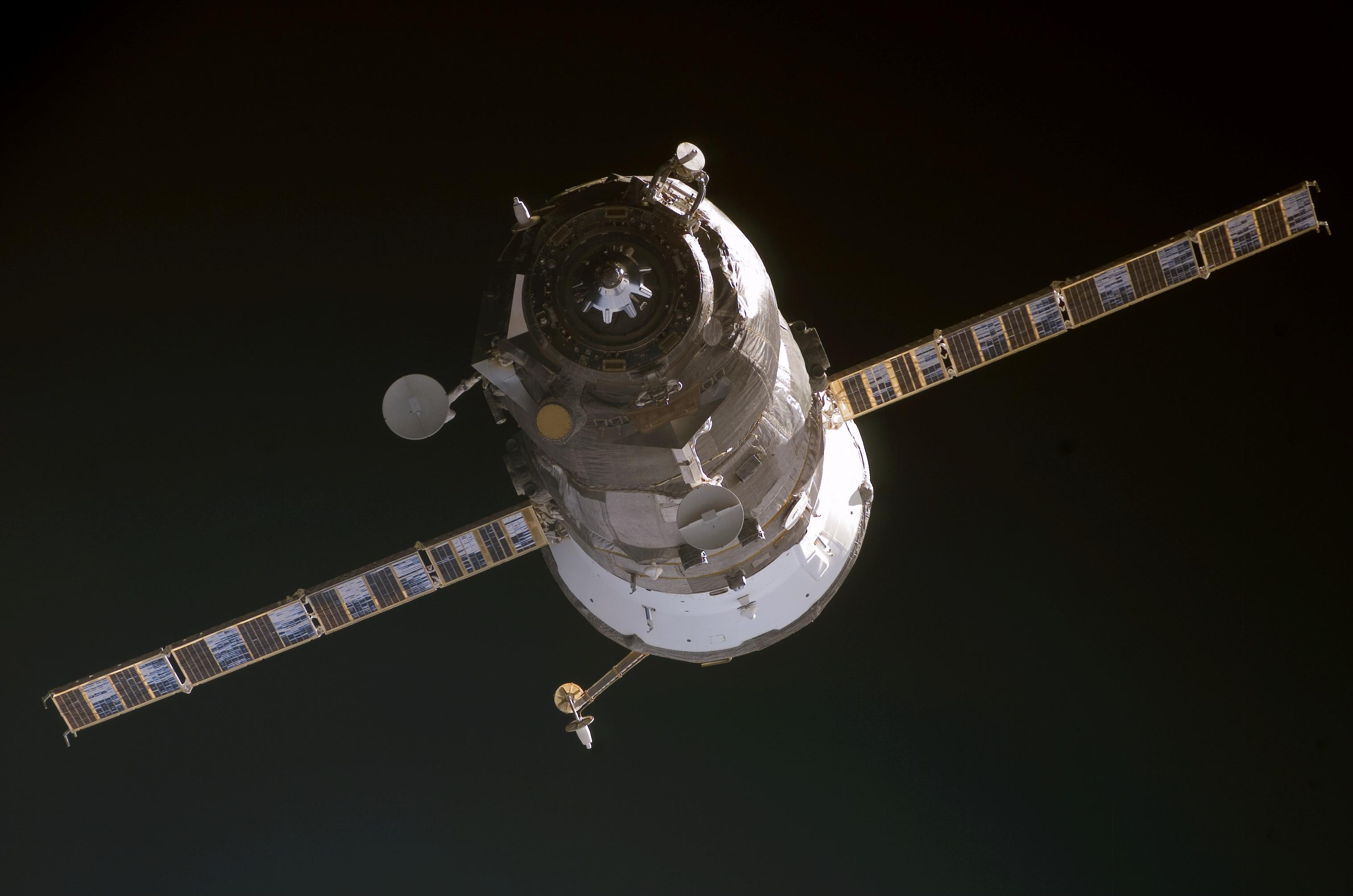 Progress M-57 seen from the International Space Station during docking.